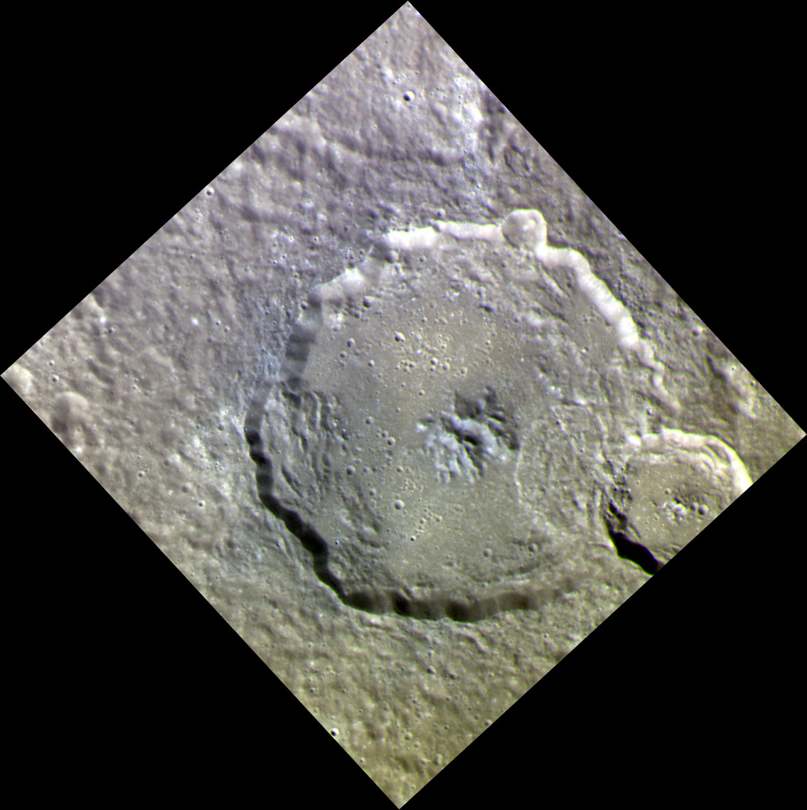 Akutagawa crater on Mercury. Approximate color representation combining three images acquired by MESSENGER Wide Angle Camera (EW0247684193G, EW0247684197F, EW0247684201I) with I (996.2 nm), G (748.7 nm), and F (433.2 nm) filters. Combined in GIMP software as RGB (Red-Green-Blue), and then rotated so that north is up. Statistics for I image: Emission Angle: 0.9 Incidence Angle: 59.9 Latitude: 48.6 Longitude: 218.6 Phase Angle: 59.1